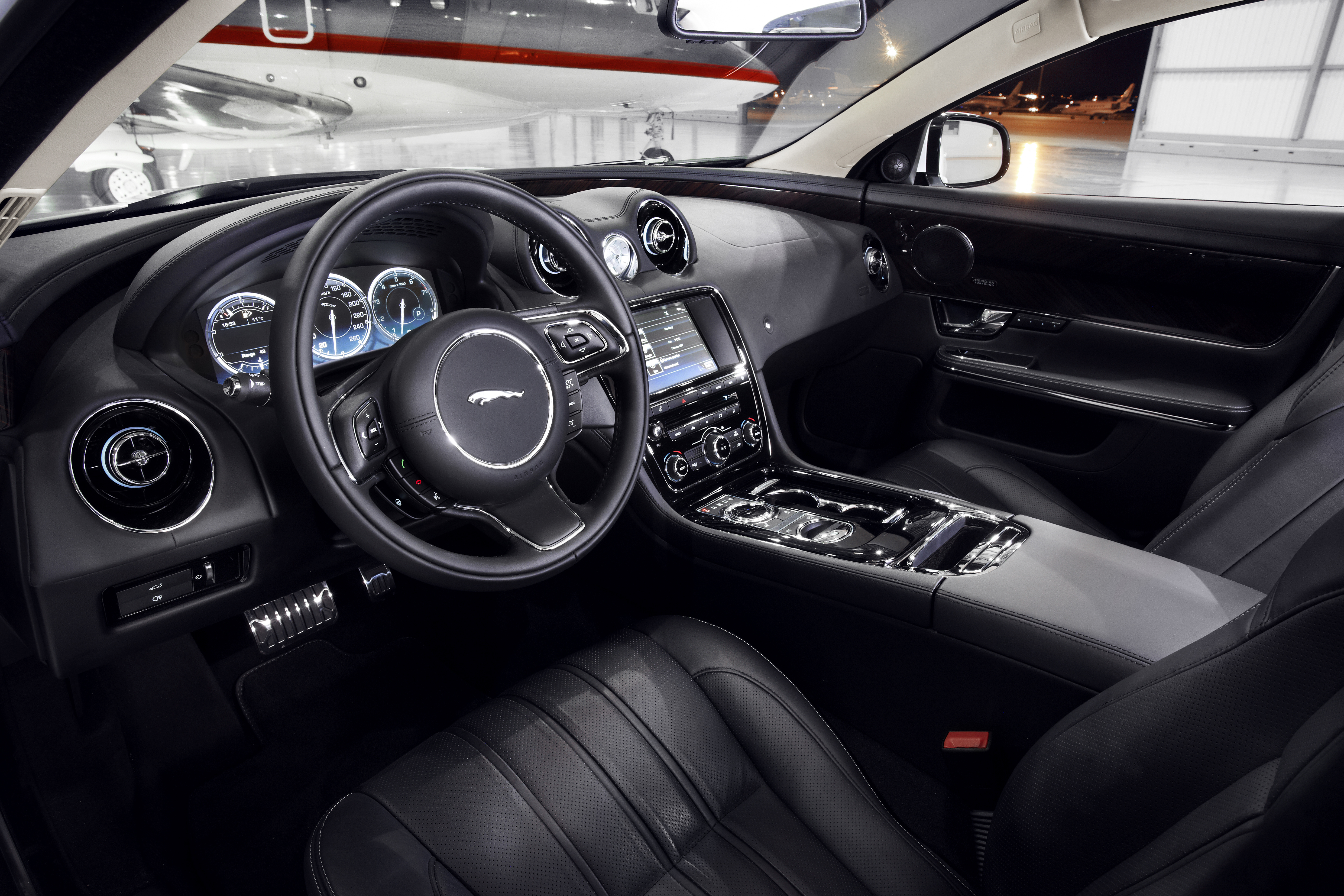 The flagship Jaguar XJ ushered in a new interpretation of the company's established reputation for dramatic design and - with its lightweight aluminium architecture - responsible performance. Now, the XJ Ultimate focuses on two further Jaguar hallmarks: innovation and luxury, extending the model's emotive appeal.